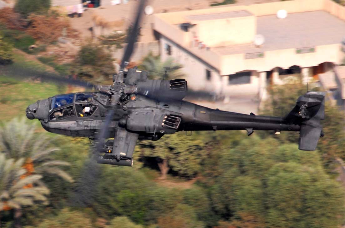 Photo by Chief Warrant Officer 4 Daniel McClinton, 1st ACB October 15, 2007 An AH-64A Apache from Company B, 1st Attack Battalion, 227th Aviation Regiment, 1st Air Cavalry Brigade, 1st Cavalry Division, flies over a residential area in the Multi-National Division-Baghdad area Oct. 12. The Apache crew was conducting a reconnaissance mission to keep an eye out for enemy mortar and anti-aircraft systems.